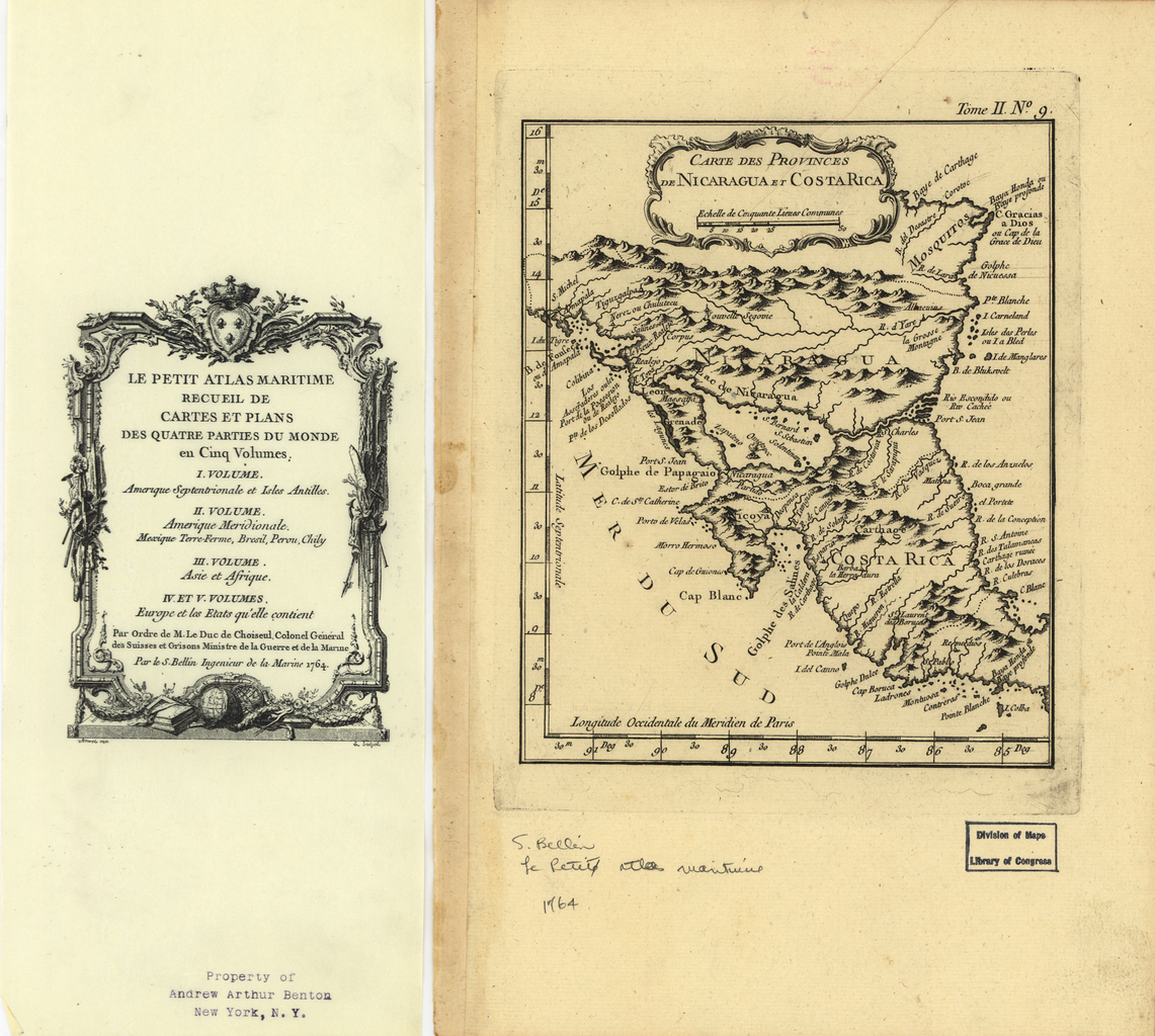 Jacques Bellin (1703-72) was a prolific cartographer attached to the French Marine Office. In 1764, he published Le Petit Atlas Maritime (Small maritime atlas), a work in five volumes containing 581 maps. Nicaragua and Costa Rica, shown in this map from the second volume of the atlas, were at the time provinces of the Captaincy General of Guatemala, part of the Spanish Empire. The left side of the image shows the title page of Bellin’s atlas. Nicaragua and Costa Rica both declared independence from Spain in 1821.